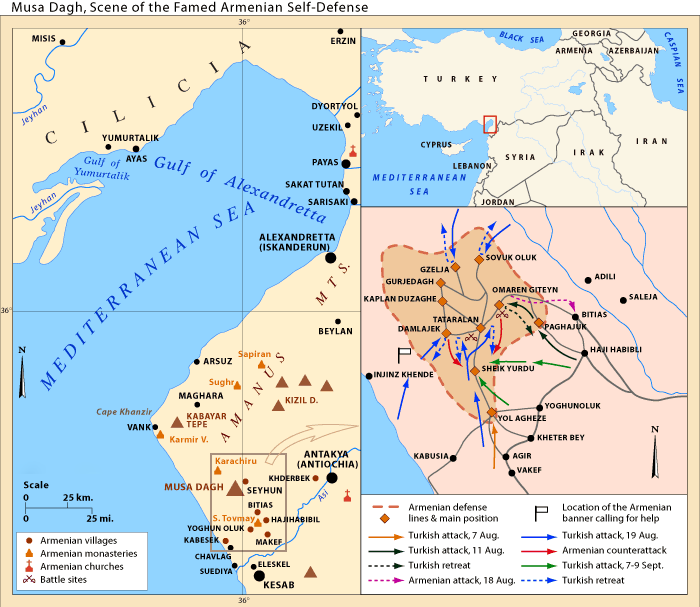 Musa Dagh, Scene of the Famed Armenia Self-Defense. Musa Dagh Aug - sept 1915